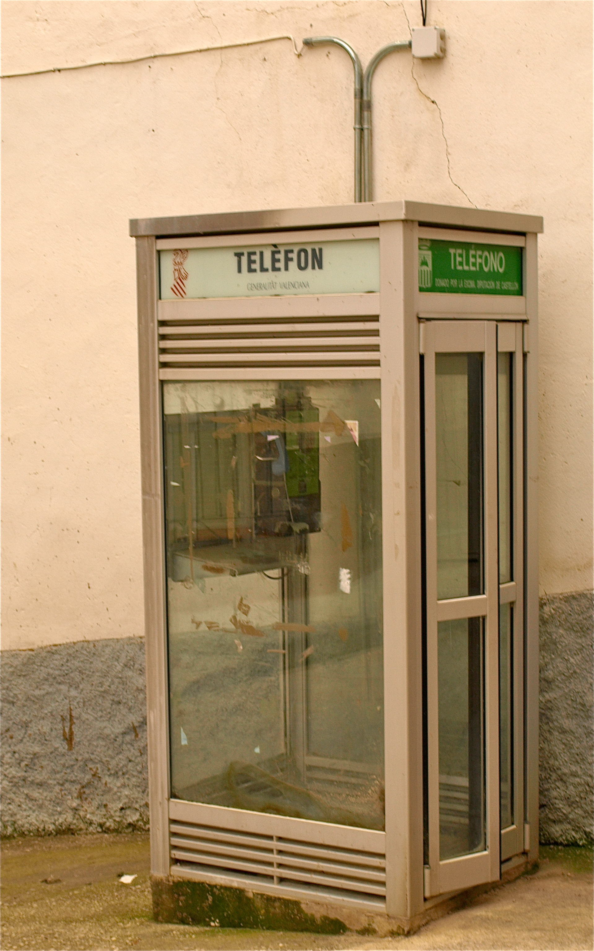 Portell phone booth